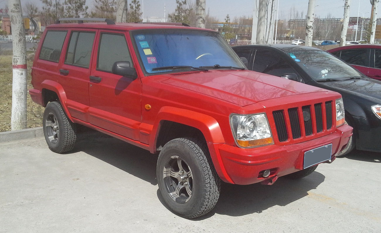 BAW Qishi photographed in Yinchuan, Ningxia province, China.